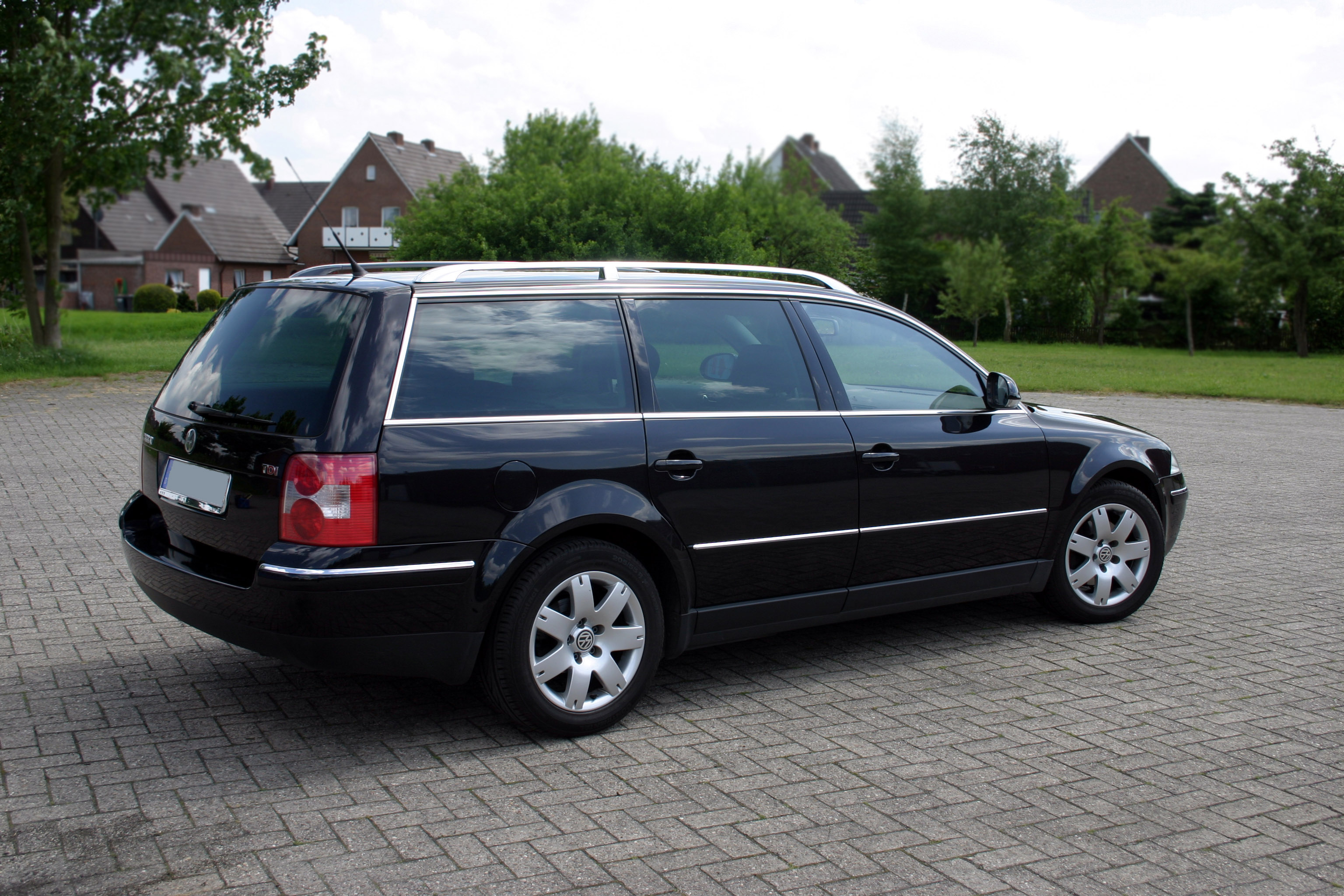 VW Passat Wagon B5 platform - year of manufacture 2004, VW Passat Variant B5GP - Baujahr 2004